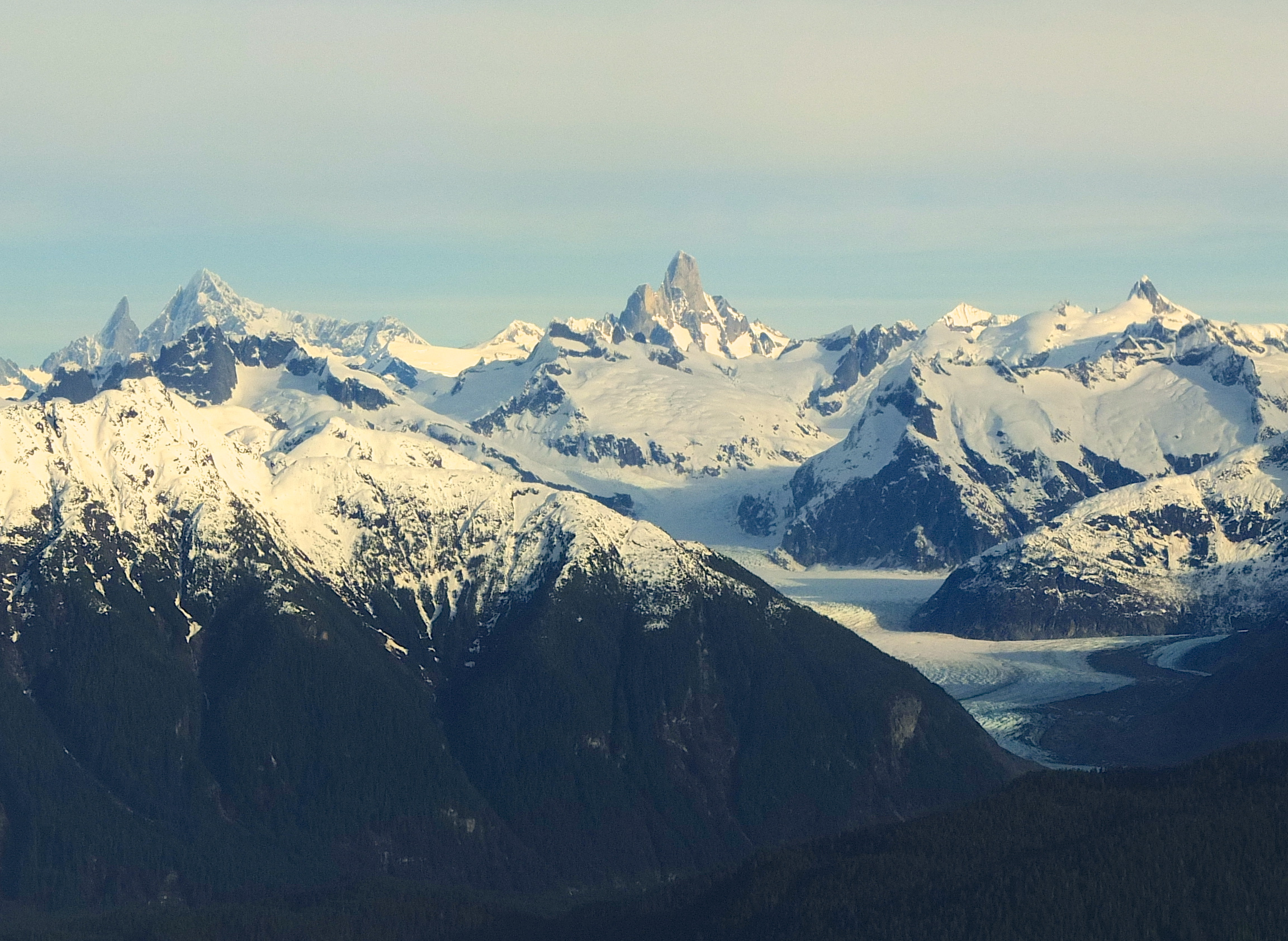 Devil's Thumb